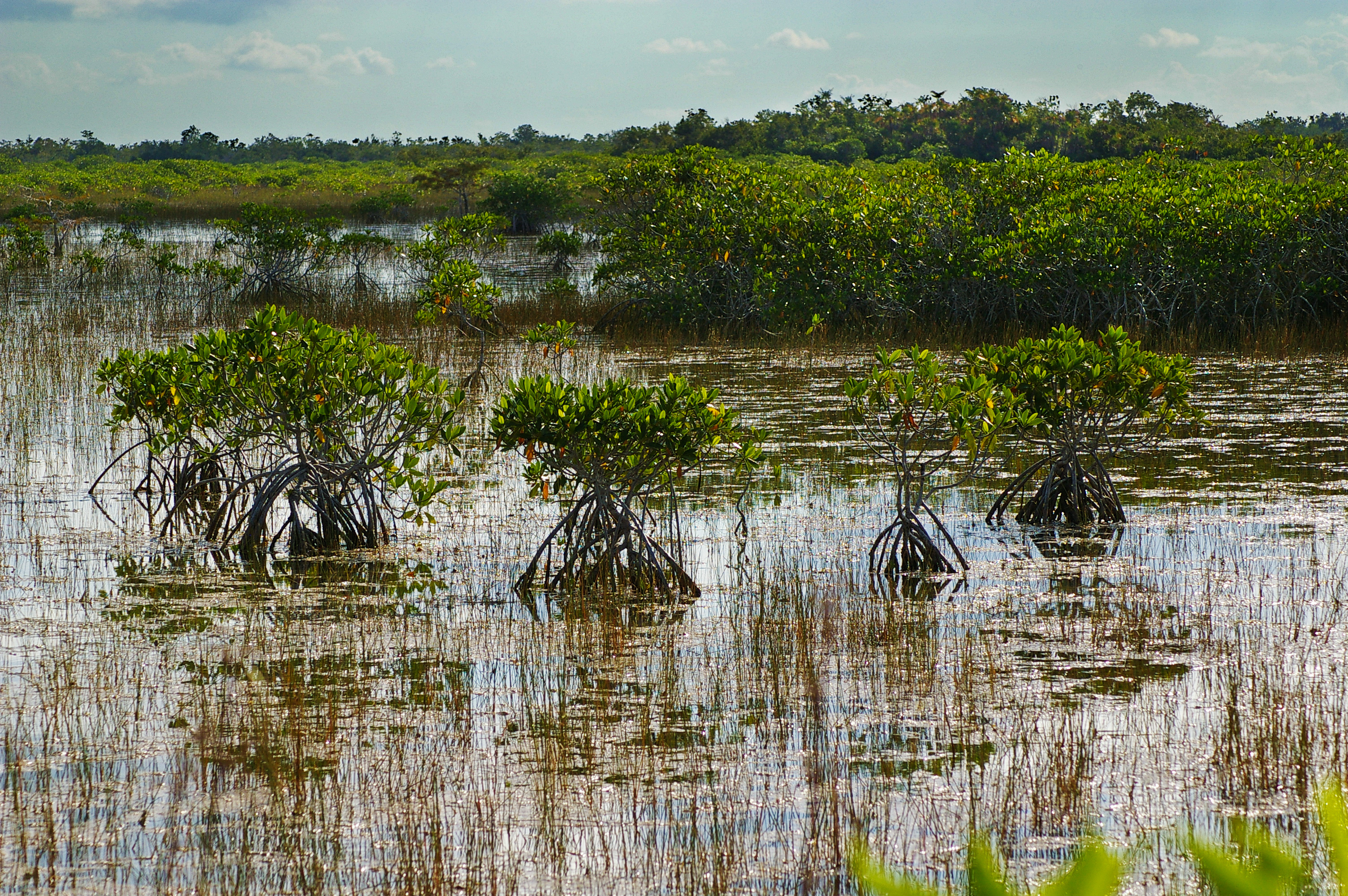 Everglades National Park, Florida